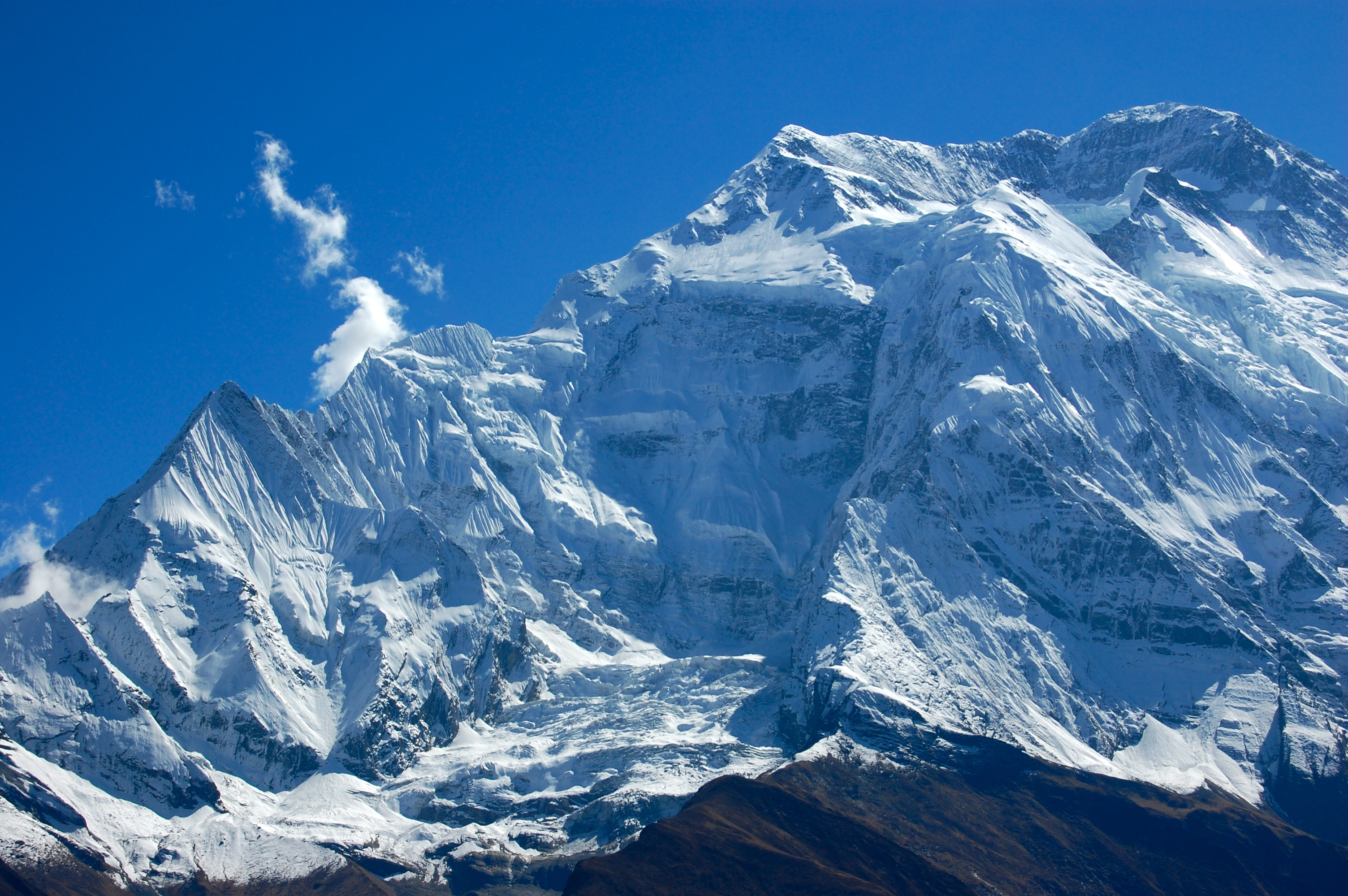 Annapurna II (7937 m) from north